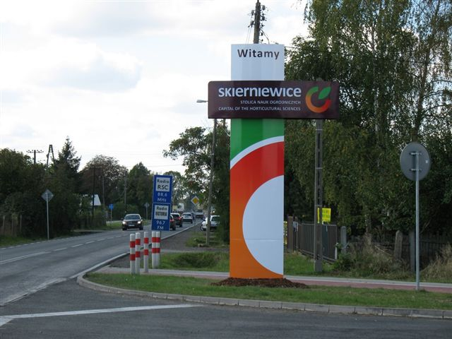 Welcome to Skierniewice